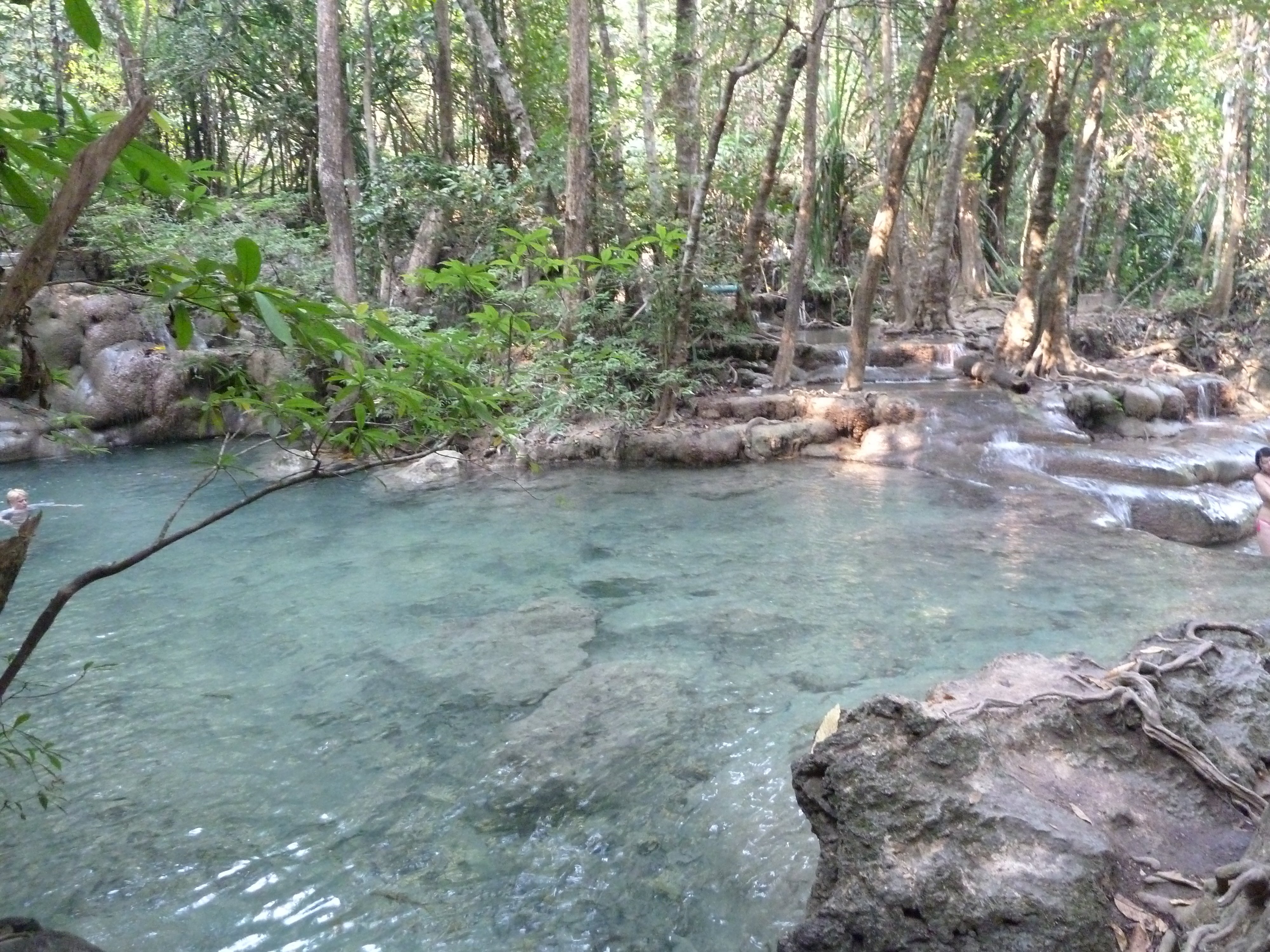 Level five of Erawan Waterfall, Kanchanaburi, Thailand